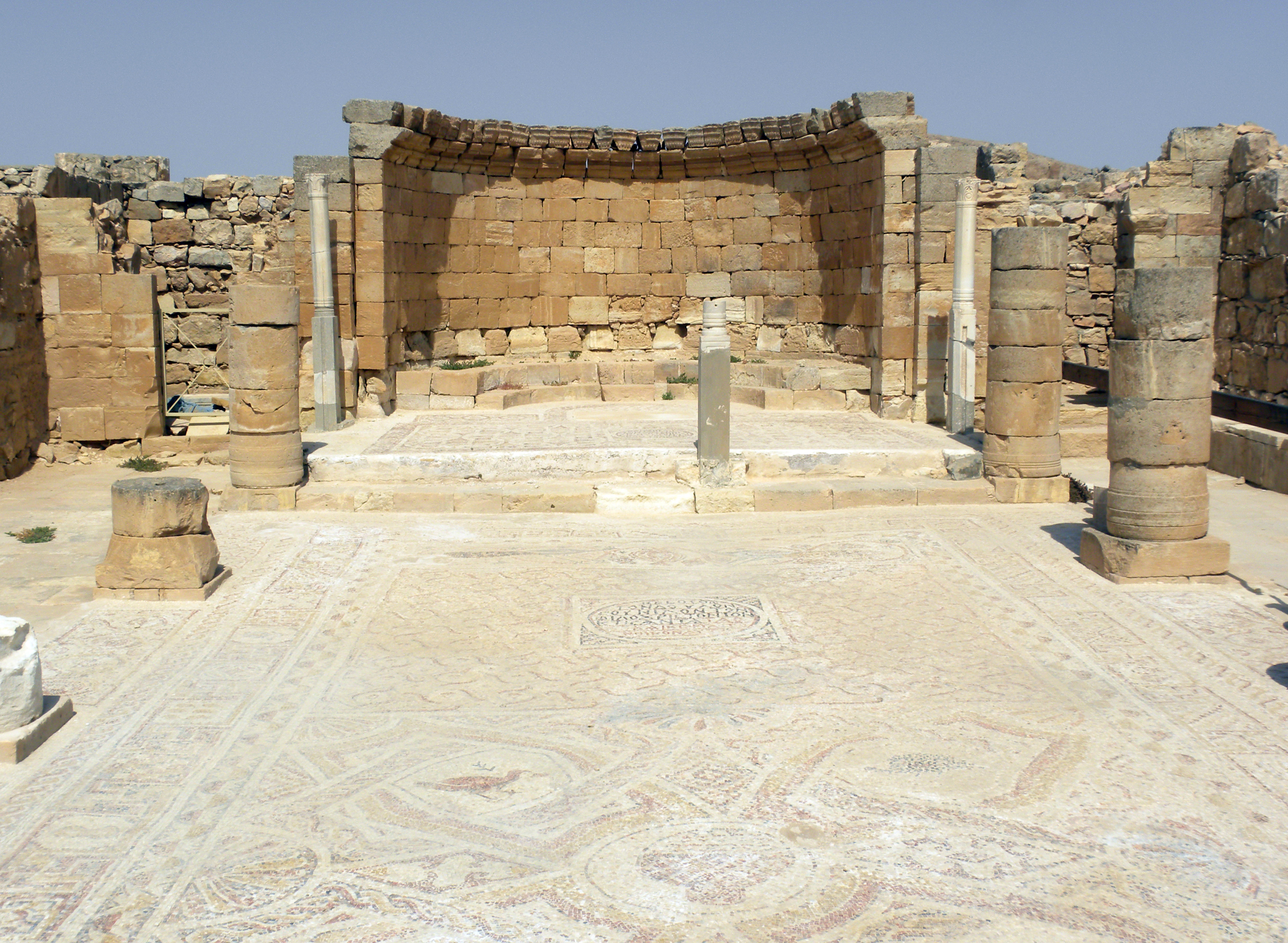 St. Nilus Church, Mamshit archaeological site, Israel.